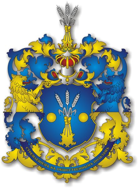 Year adopted - 1872 awarded by Emperor Alexander II of Russia Crest - Above the shield is a noble crowned helmet. Out of a ducal coronet a golden lion's paw holding three silver spikes with leaves. Escutcheon - In the blue shield vertically a severed golden lion's paw holding three silver spikes with leaves. On both sides of the escutcheon the Byzantine golden coins. Supporters - Two lions. First intersected with gold and blue, second with blue and gold. Both with red eyes and tongue. Motto - Aspiration For The Commonweal Source - Author - S.Sheludko